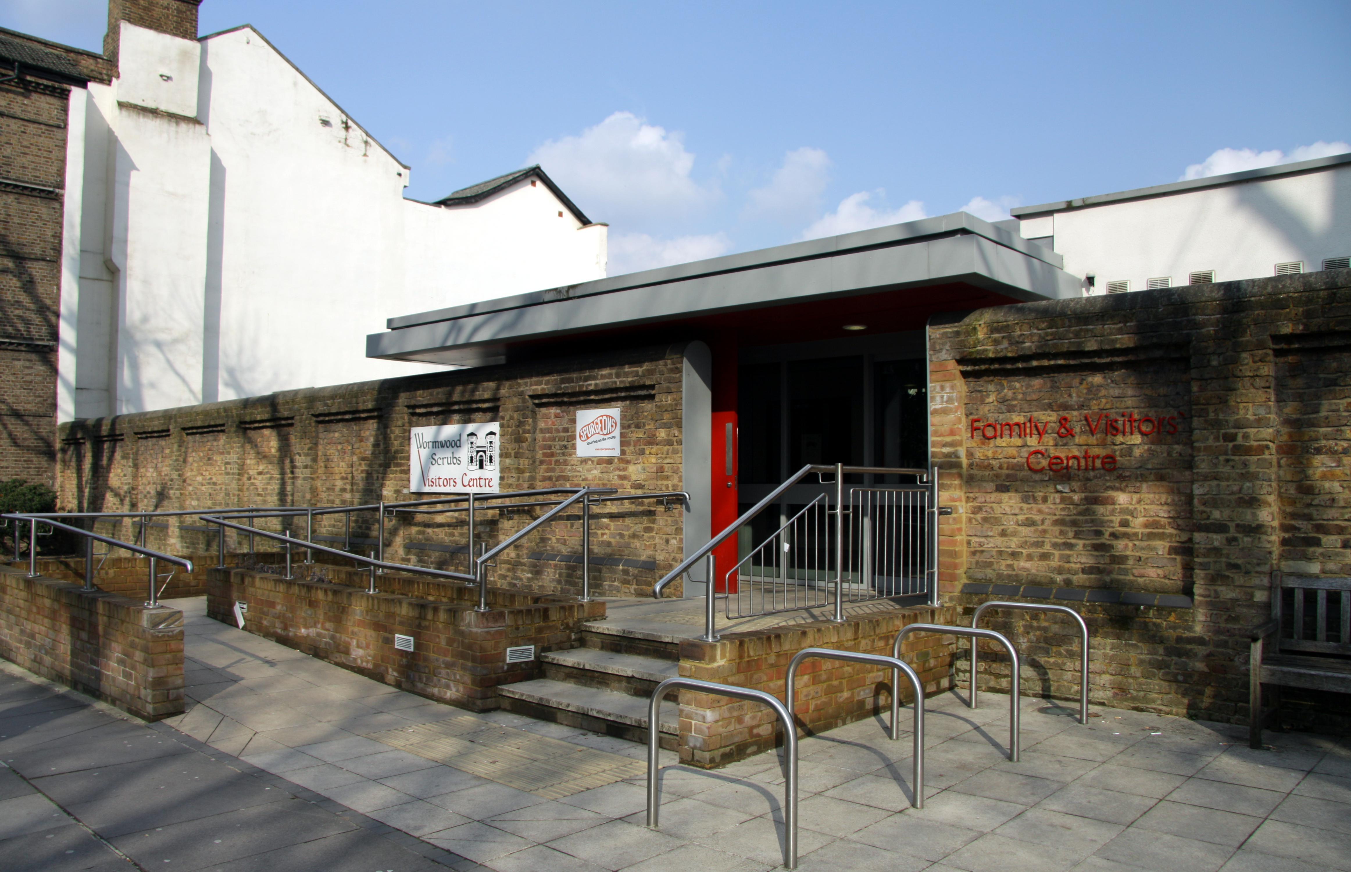 Visitors centre of main gate to the HM Prison Wormwood Scrubs in London, England, Great Britain